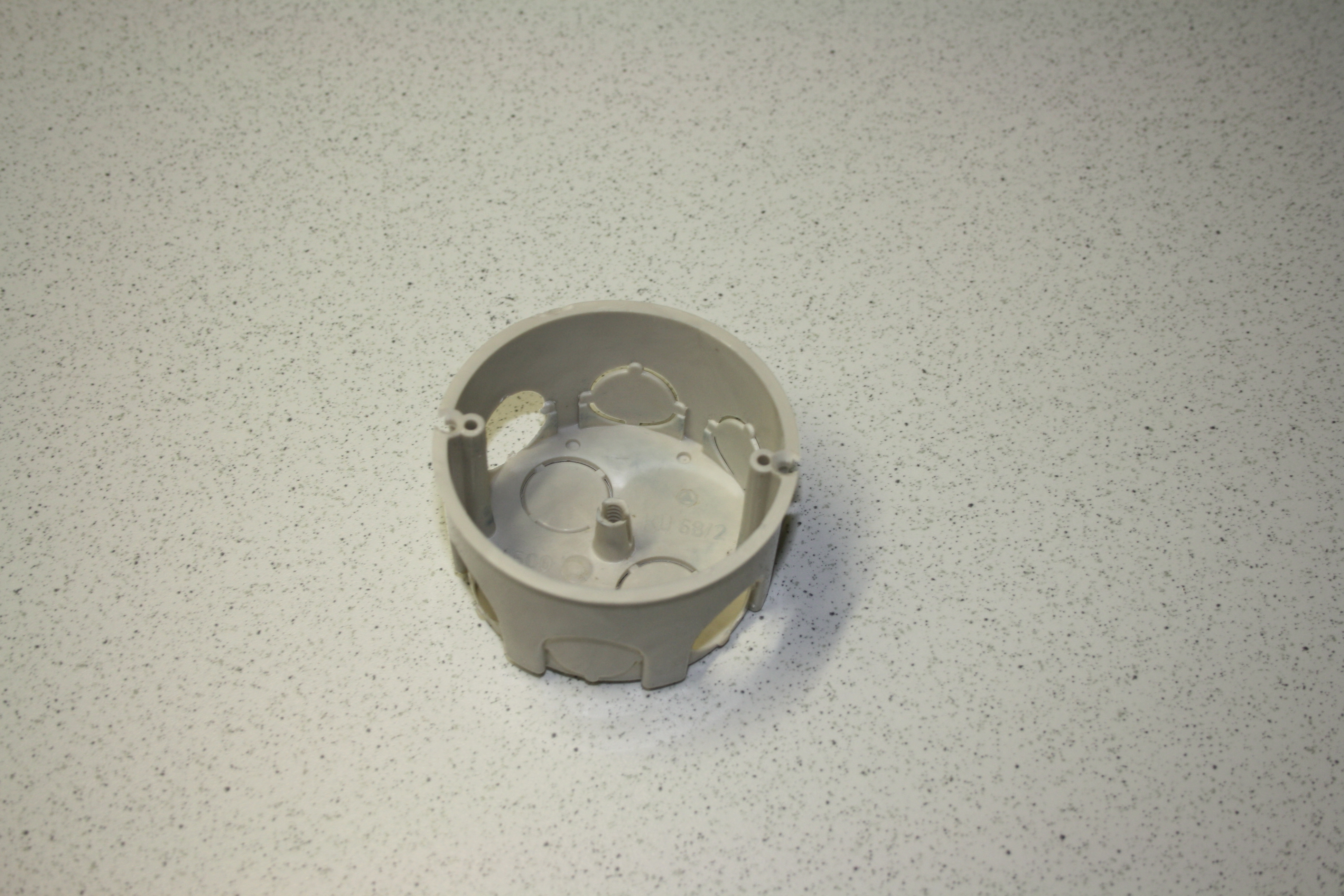 Electrical instalation box, basic size